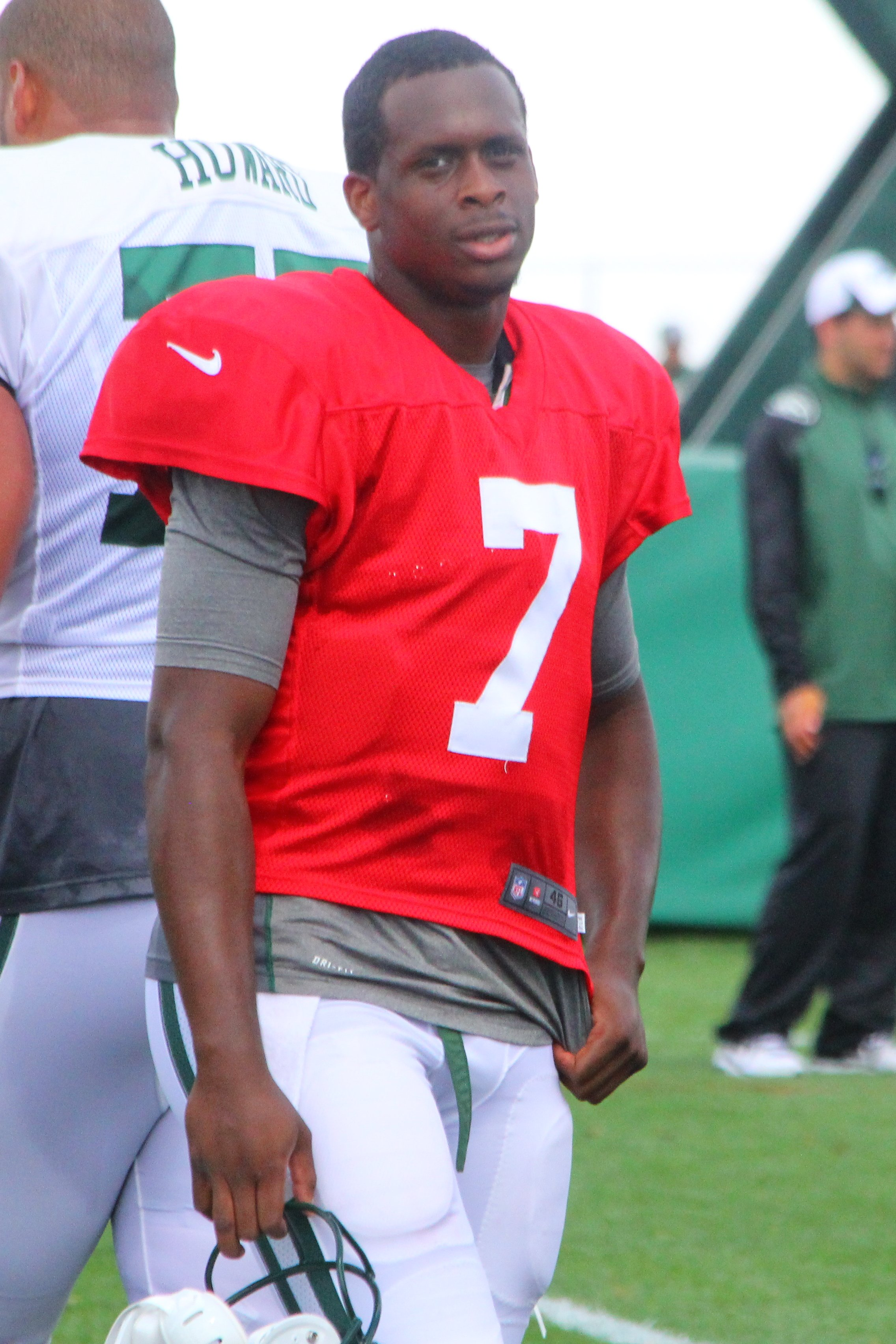 Geno Smith at New York Jets training camp.